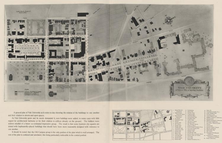 "Yale University, A General Plan of Existing Conditions," as designed by the architect John Russell Pope. Pope's design for Yale's physical plant was published in "Yale University: A Plan for Its Future Building," by Pope and illustrated by Otto Reinhold Eggers. Image courtesy of the Yale University Manuscripts & Archives Digital Images Database, Yale University, New Haven, Connecticut.